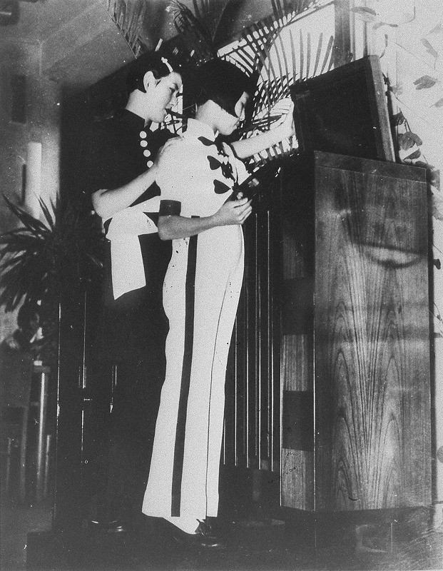 Moga in Tokyo